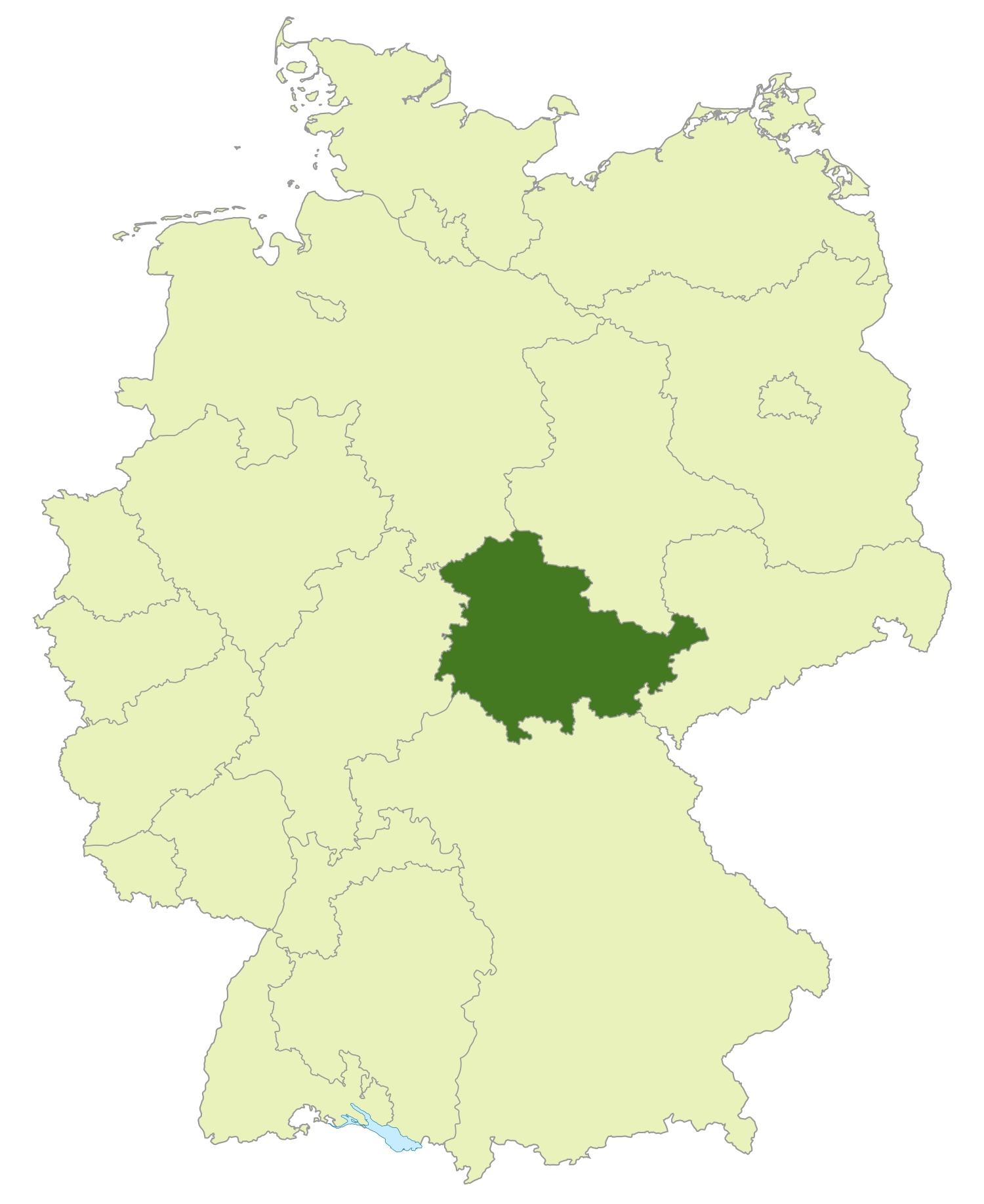 Map of regional soccer association Thüringen, Germany